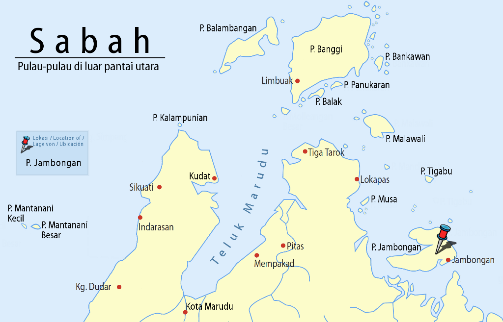 Sabah: Scheme of Islands off the northern coast / Pulau Jambongan (1024 px)